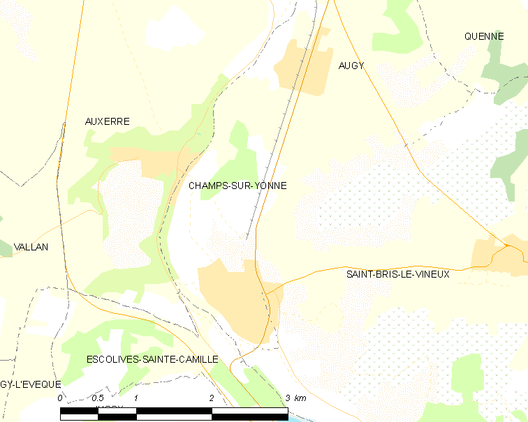 Map of French municipality Champs-sur-Yonne